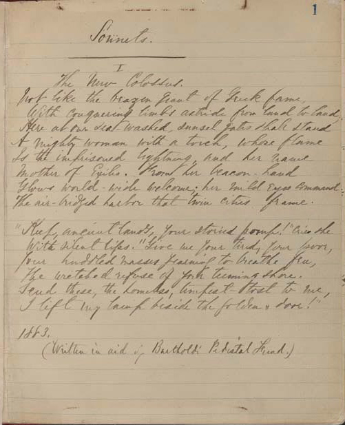 Manuscript of the sonnet "The New Colossus" by Emma Lazarus, dated 1883. Appeared in the on-line exhibit "Haven to Home" at the Library of Congress.